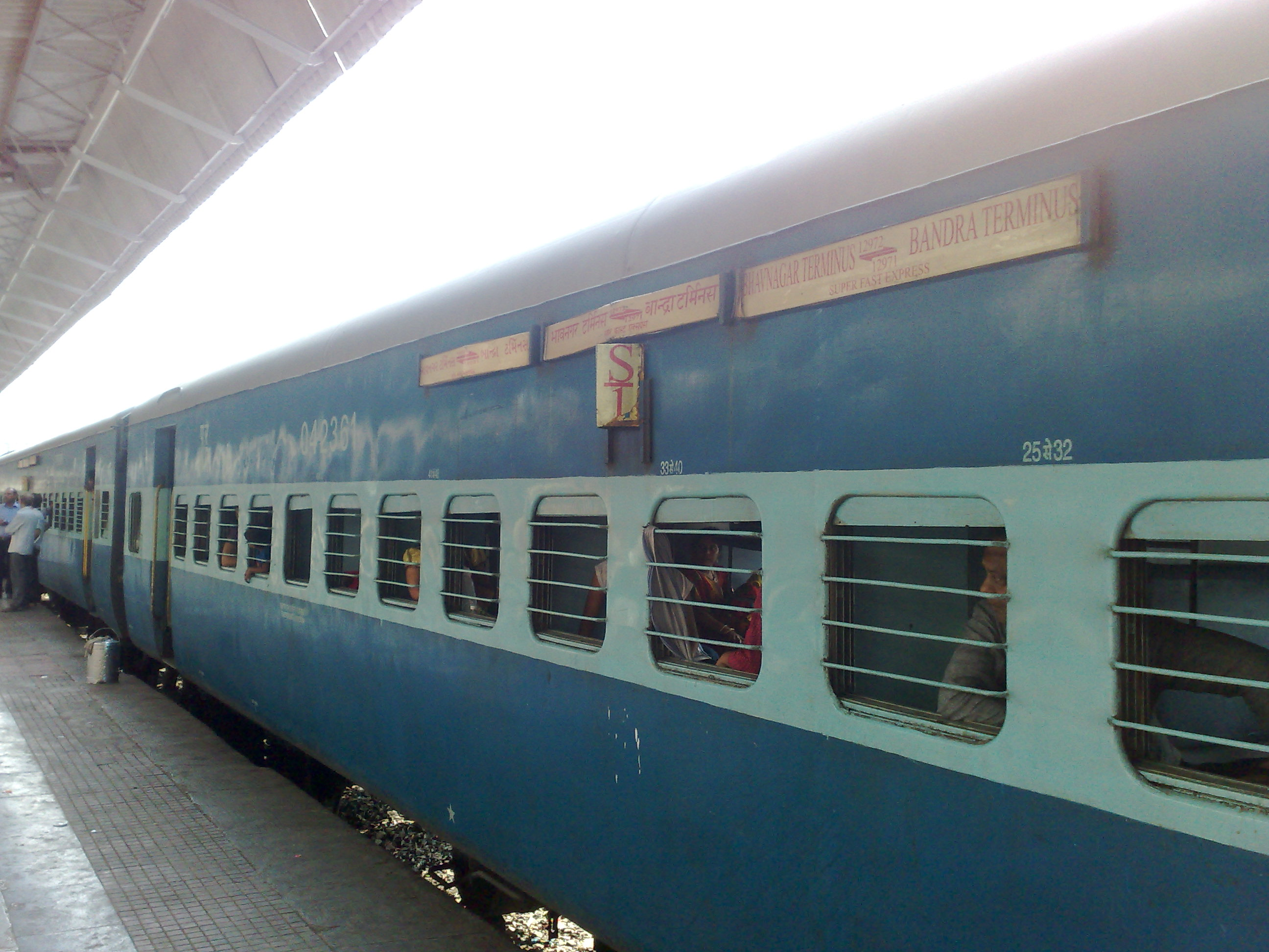 12972 Bhavnagar Express - Sleeper Class